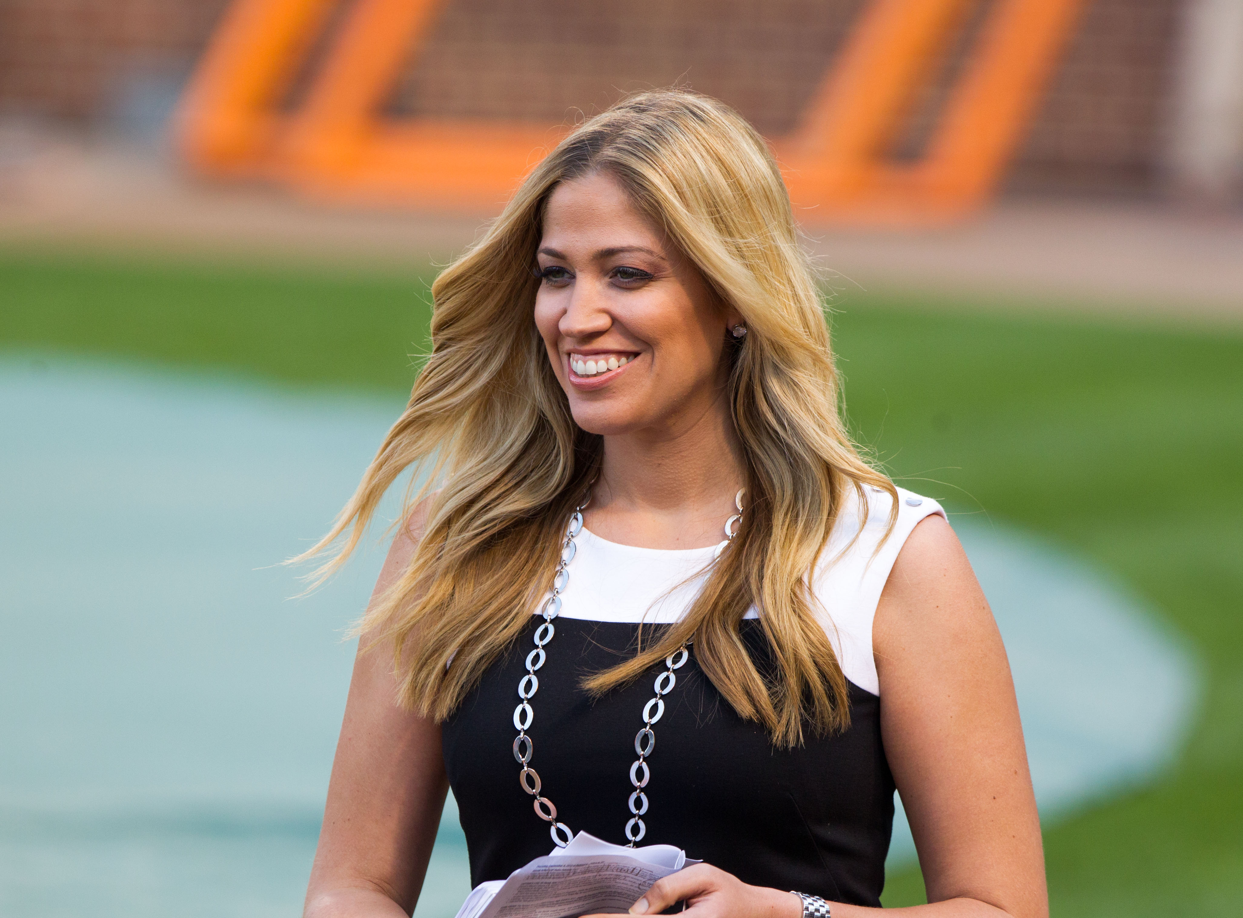 New York Yankees at Baltimore Orioles September 6, 2012